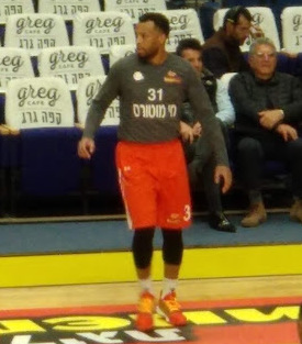 Maccabi Tel Aviv B.C. vs Ironi Nes Ziona B.C. (02) - 25 March 2019